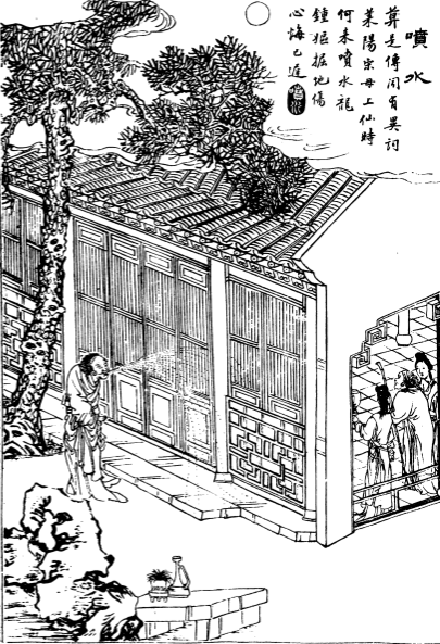 19th-century illustration of a scene from the short story "Squirting" collected in Strange Tales from a Chinese Studio (1740).